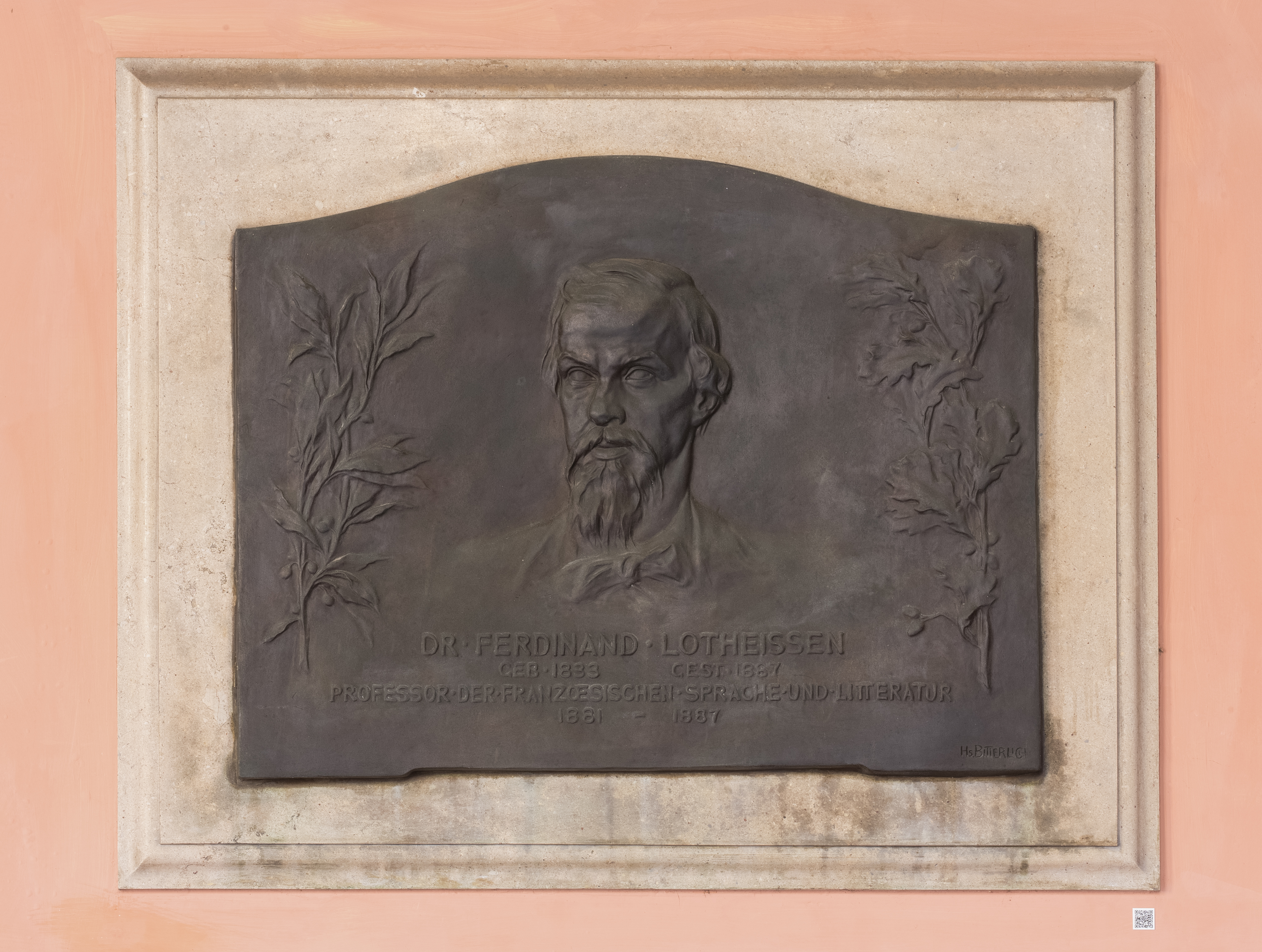 Ferdinand Lotheissen (1833-1887), relief (bronze) in the Arkadenhof of the University of Vienna, (Maisel# 39). Artist: Hans Bitterlich (1860-1949), unveiled 1902 The making of this work was supported by Wikimedia Austria. For other files made with the support of Wikimedia Austria, please see the category Supported by Wikimedia Österreich.